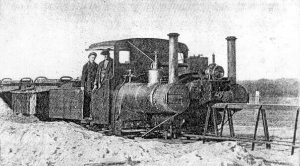 "The Siamese Twin" Locomotive on the Lartigue Monorailway, Ballybunion. Each engine has three coupled wheels, 24 inches in diameter, running along the top of main rail.